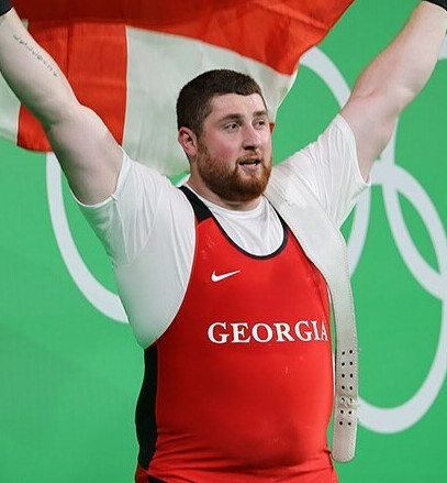 Weightlifting at the 2016 Summer Olympics - Men's +105 kg. Lasha Talakhadze from Georgia wins gold medal. Gor Minasyan from Armenia - silver. Irakli Turmanidze from Georgia - bronze medal.